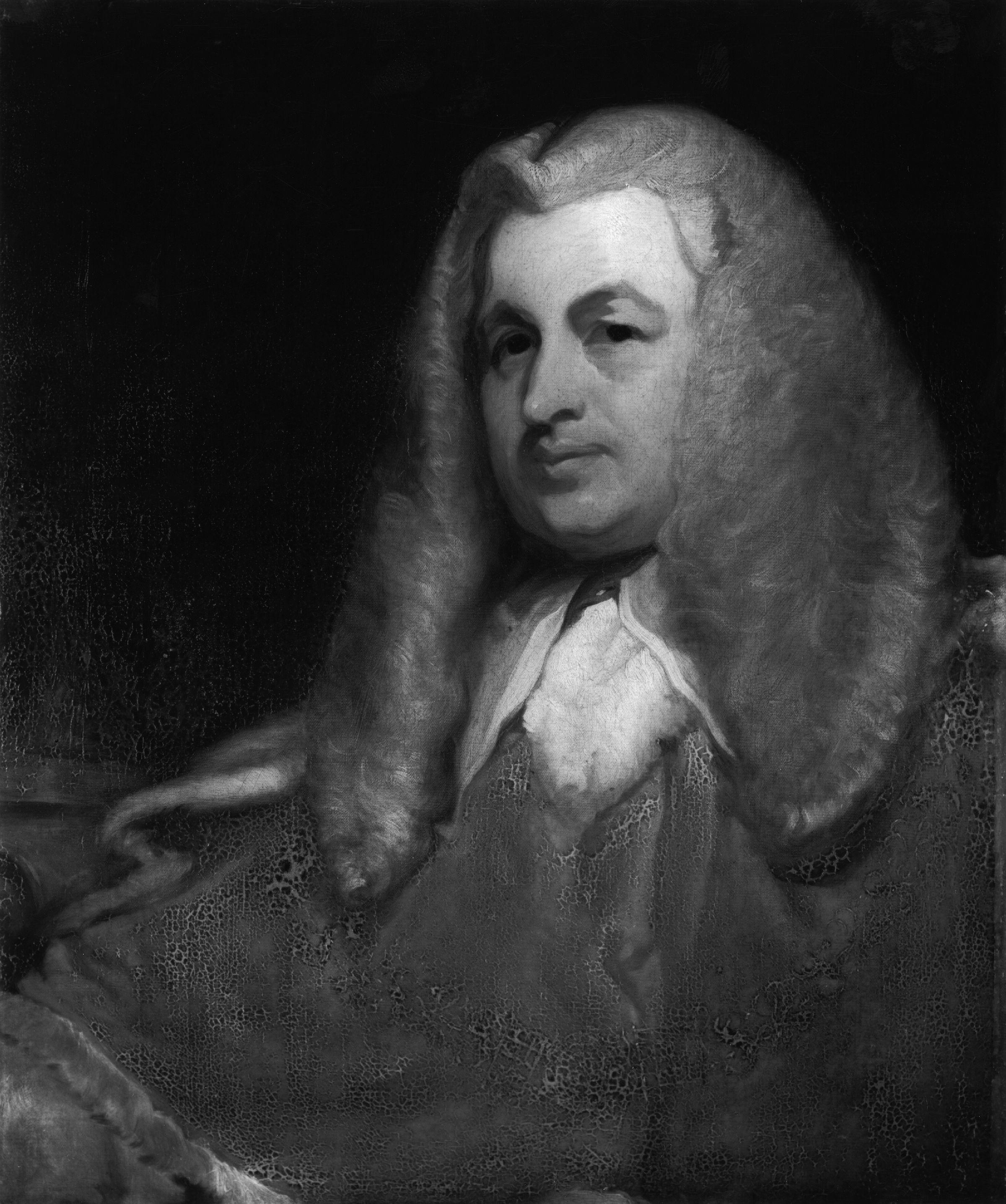 Lloyd Kenyon, 1st Baron Kenyon, by William Davison (floruit 1843), given to the National Portrait Gallery, London in 1877. All images in this batch have a known author with unknown death date, but according to the NPG's website the author was floruit (known to be active) prior to 1859, and so is reasonably presumed dead by 1939.